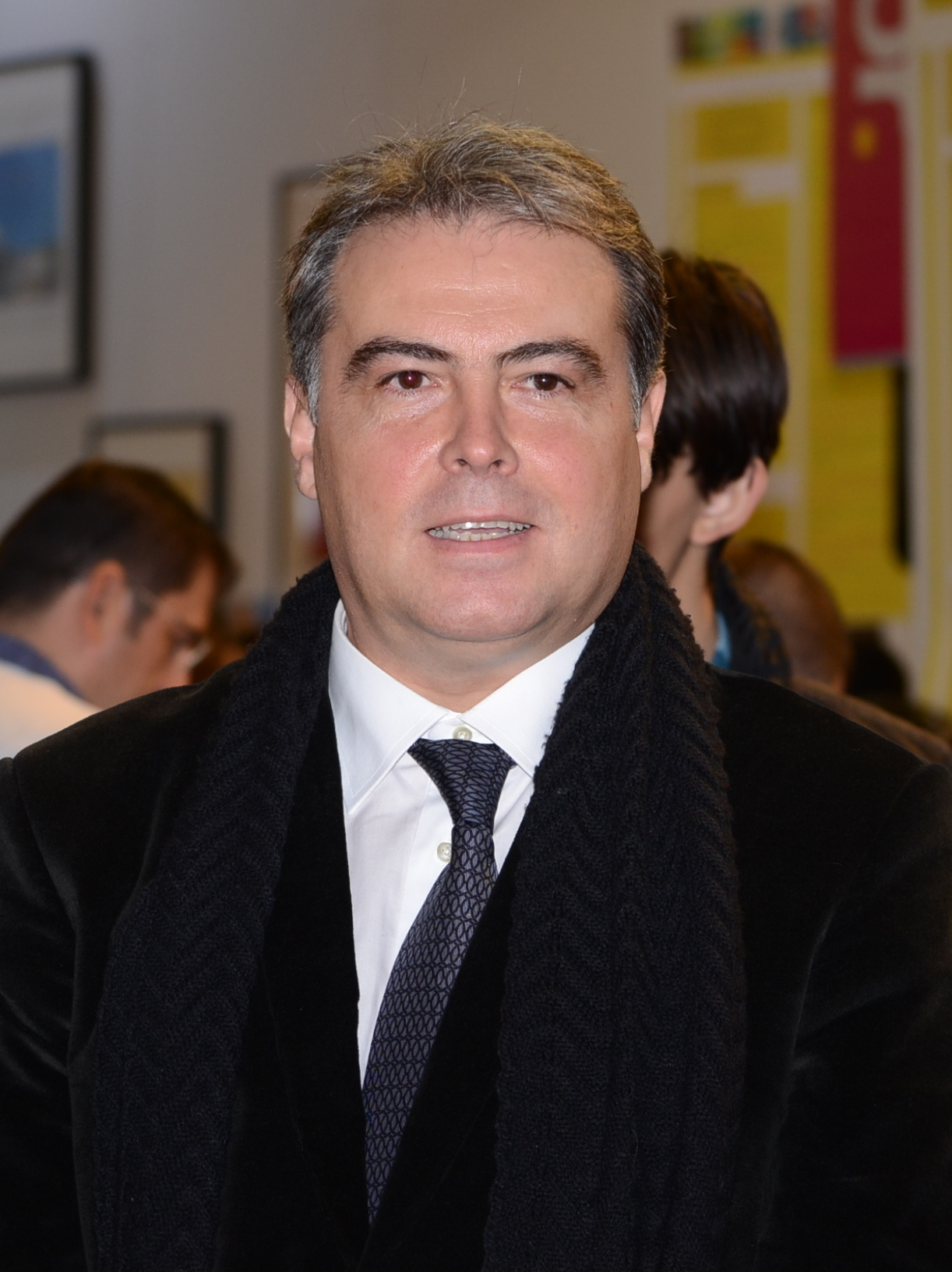 Adrian Cioroianu, at Gaudeamus Book Fair 2013